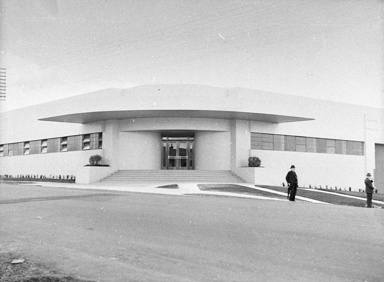 Art deco Peak Frean's American biscuit factory, corner Frederick Street and Parramatta Road, Ashfield, before the tower was added